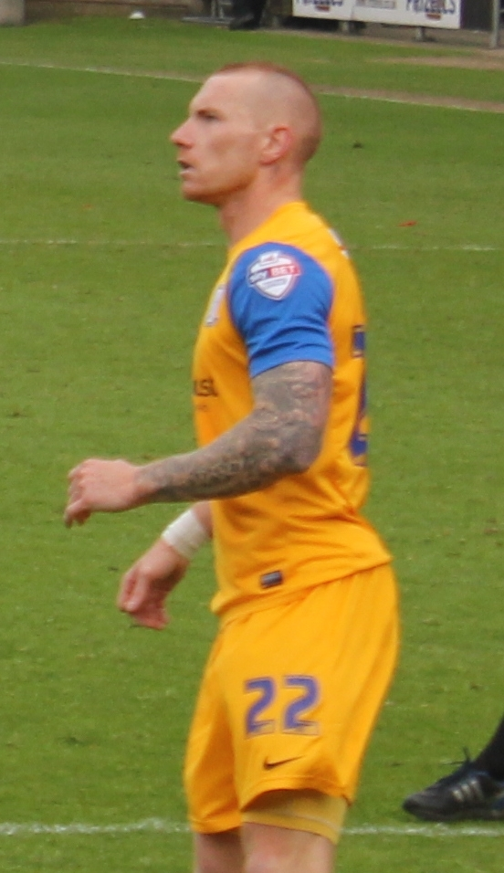 Jack King playing for Preston North End against Crewe Alexandra at Gresty Road, Crewe on 3 May 2014